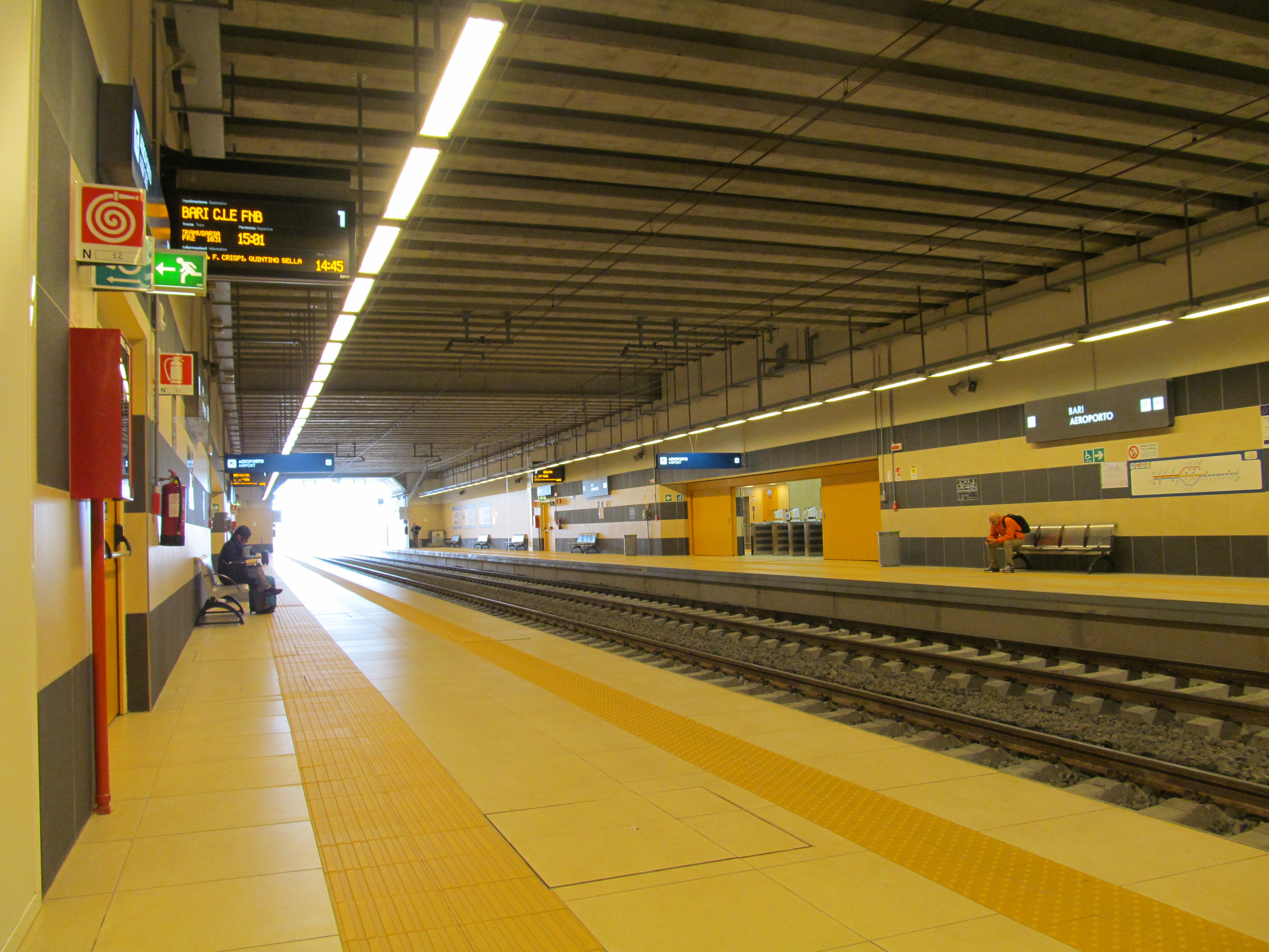 Bari Airport railway station, on the Ferrovie del Nord Barese, Italy.